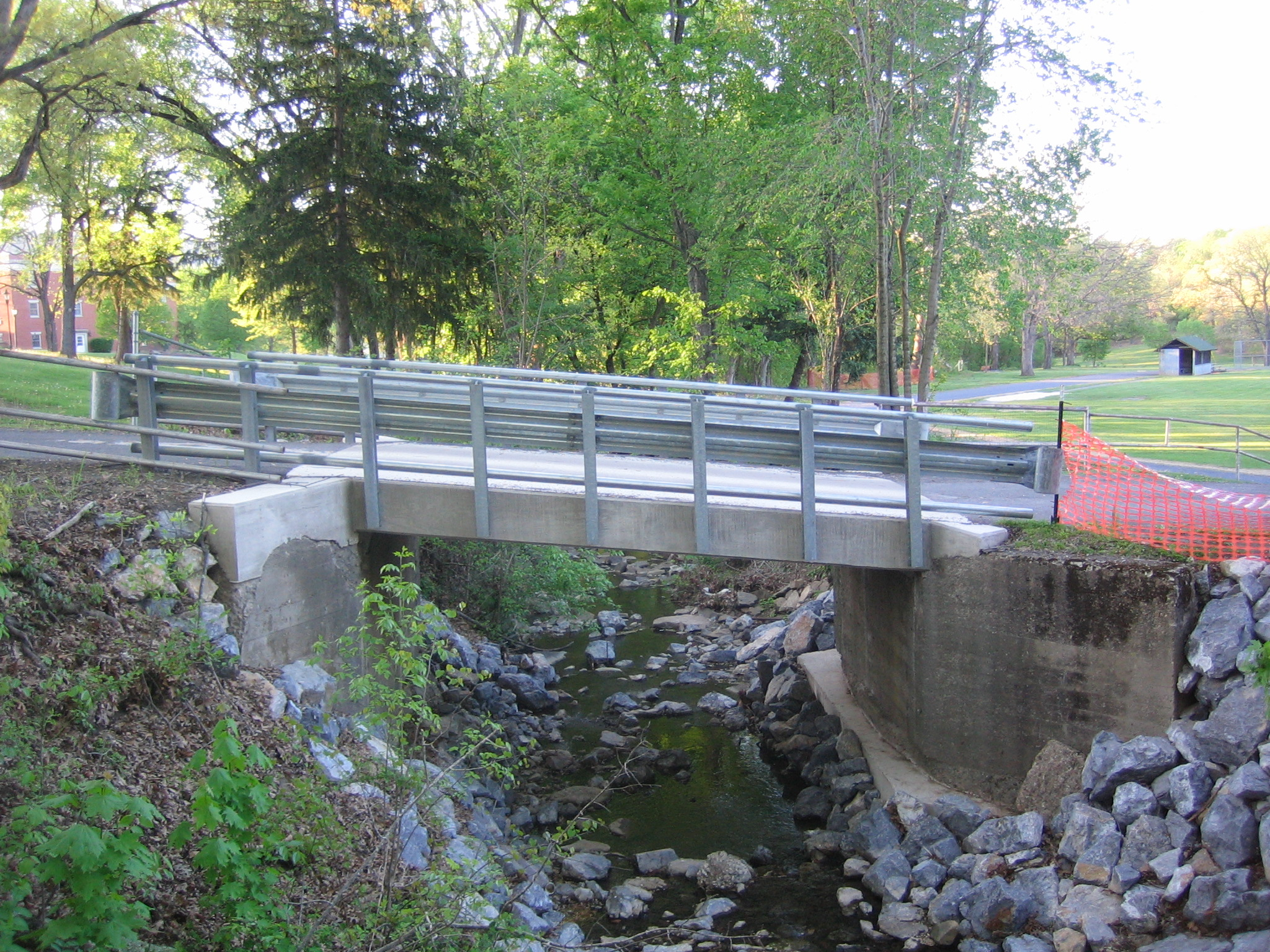 Big Run on the campus of the West Virginia Schools for the Deaf and Blind in Romney, West Virginia, United States.